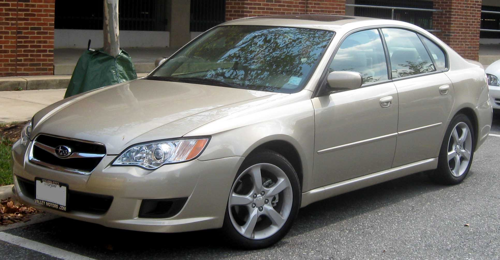 2008 Subaru Legacy 2.5i photographed in College Park, Maryland, USA.